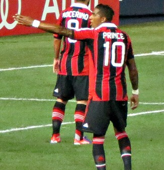 Kevin-Prince Boateng playing for A.C. Milan.